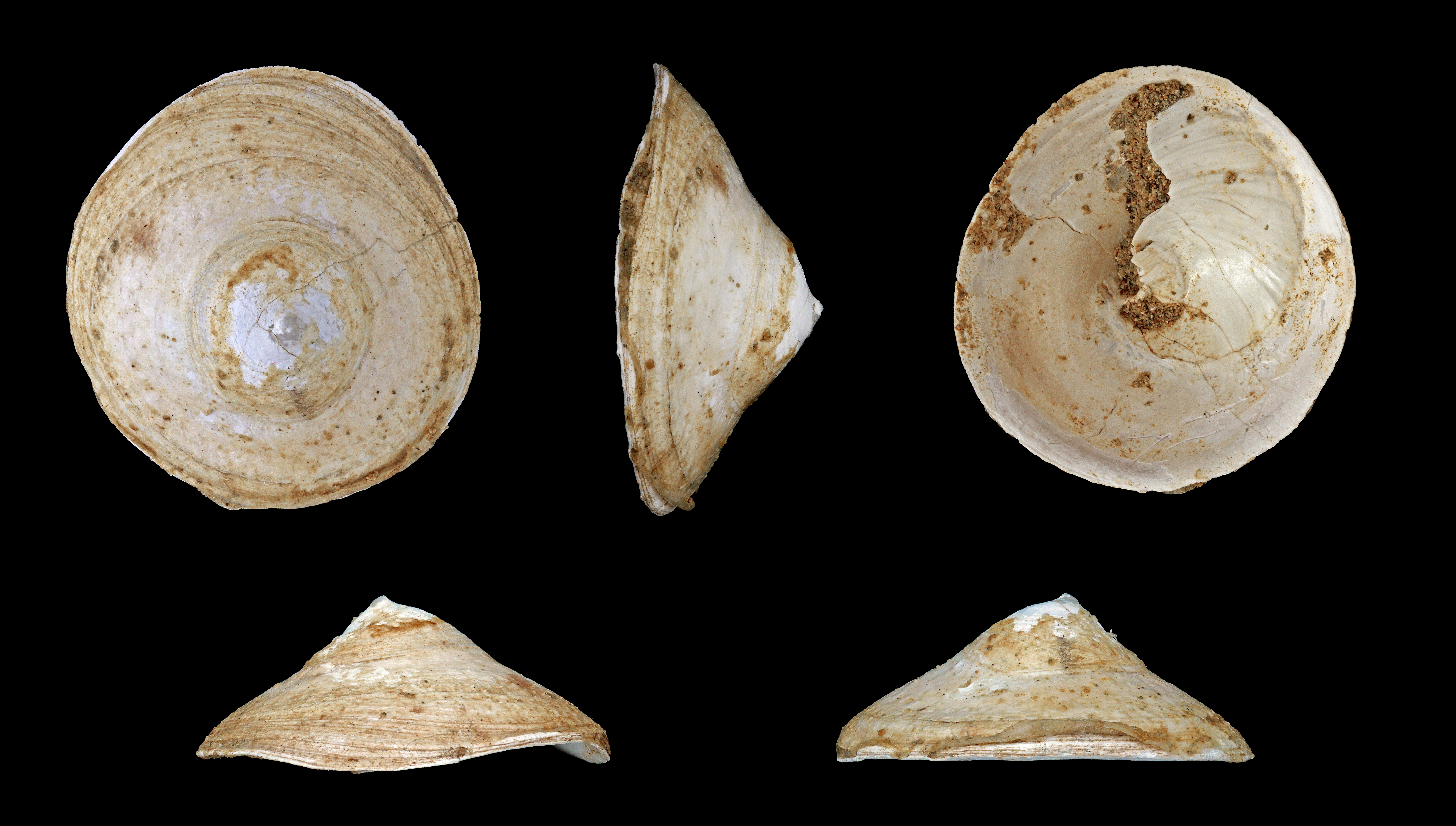 Chinese hat snail; diameter 2.8 cm; Pliocene; St. Martine / Casale, Italy; Shell of own collection, therefore not geocoded.